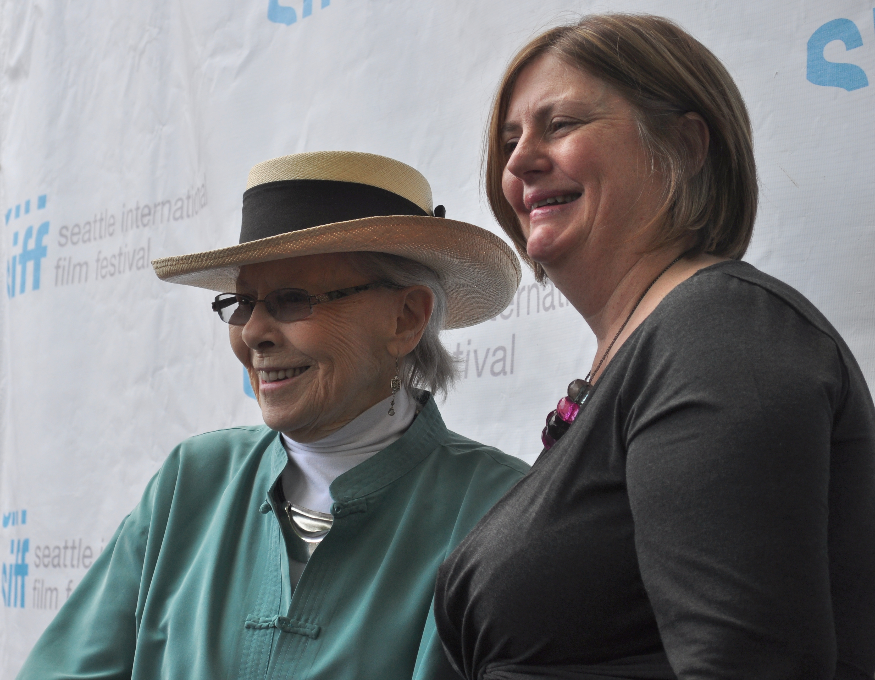 Photographer Jini Dellaccio with Karen Whitehead, director of the documentary film Her Aim Is True (about Dellaccio) at the world premiere of the film, Seattle International Film Festival, Seattle, Washington, USA, May 26, 2013.